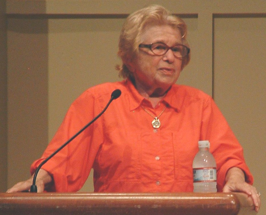 Dr. Ruth Westheimer speaking at Brown University on October 4, en:2007